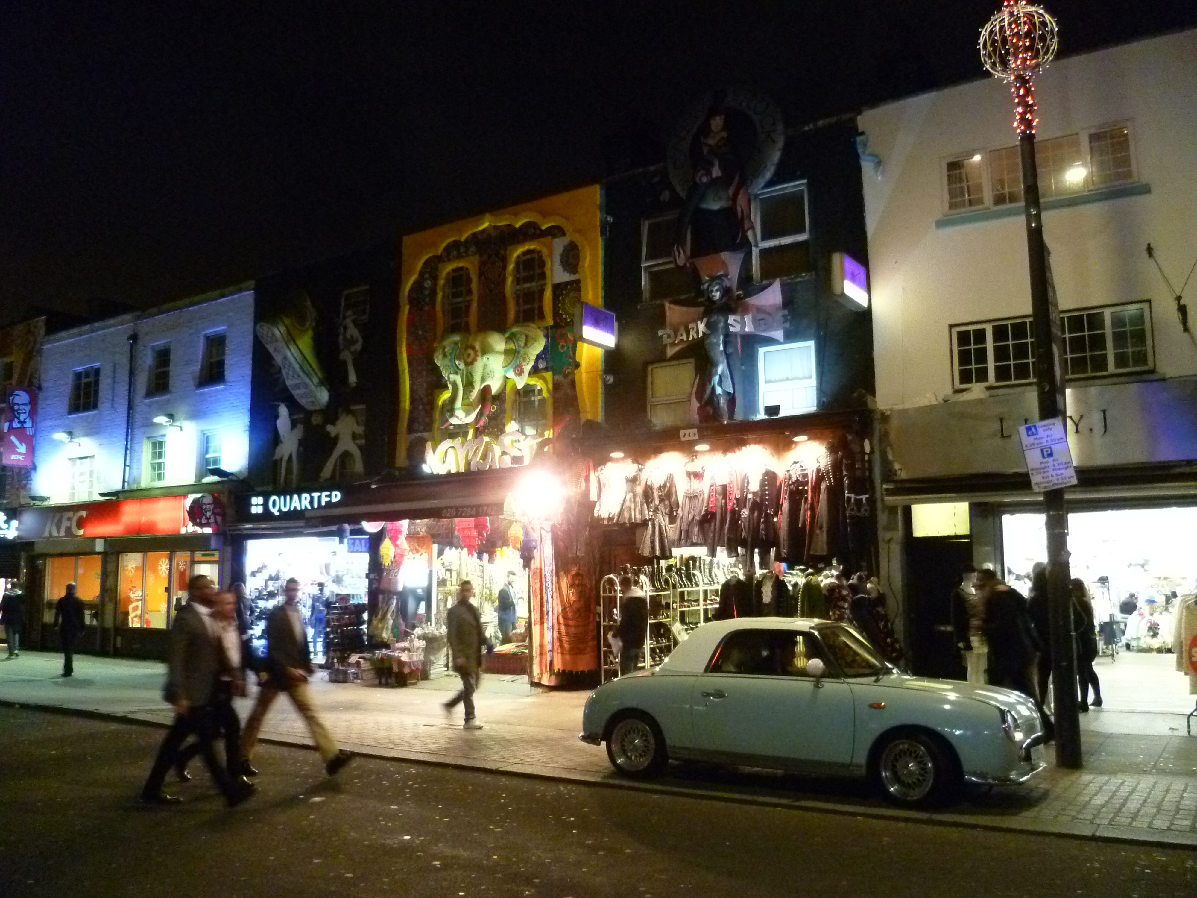 Camden Town 18 Dec 2015